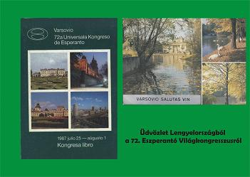 72nd World Esperanto Congress in Warsaw